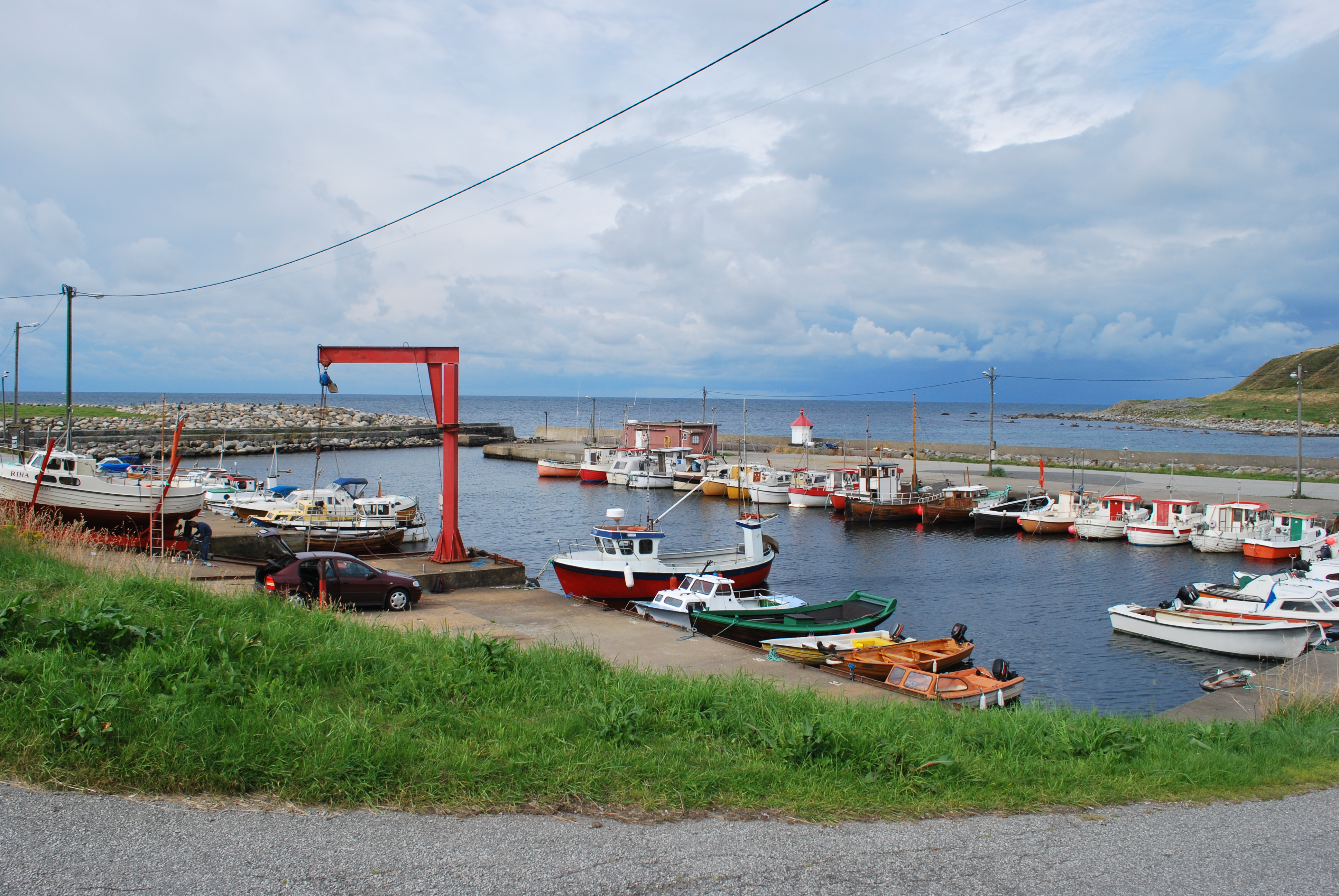 Obrestad harbour, Hå, Jæren, Norway